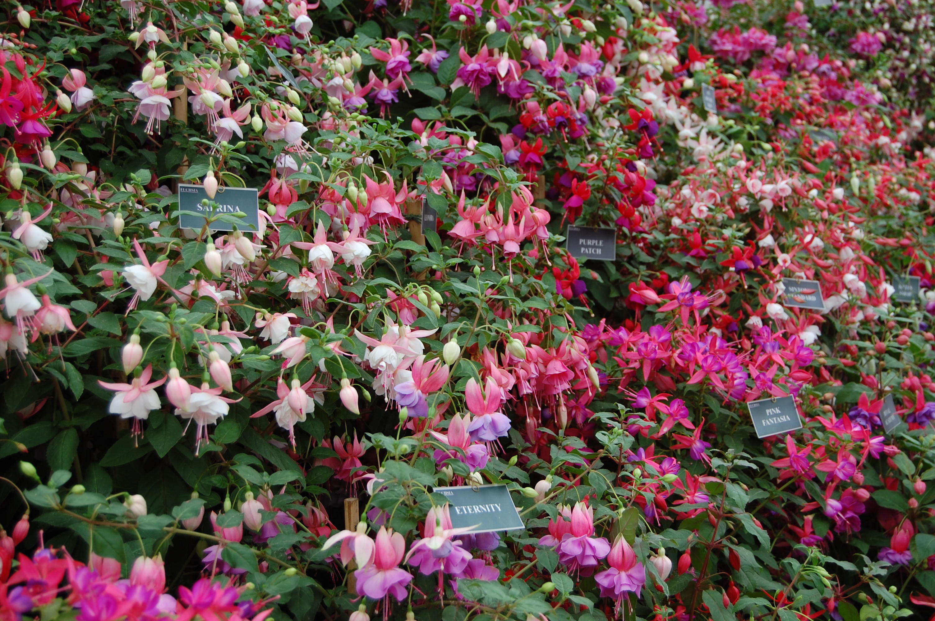 Selection of cultivated Fuchsias at the BBC Gardeners' World show, National Exhibition Centre, near Birmingham, England.